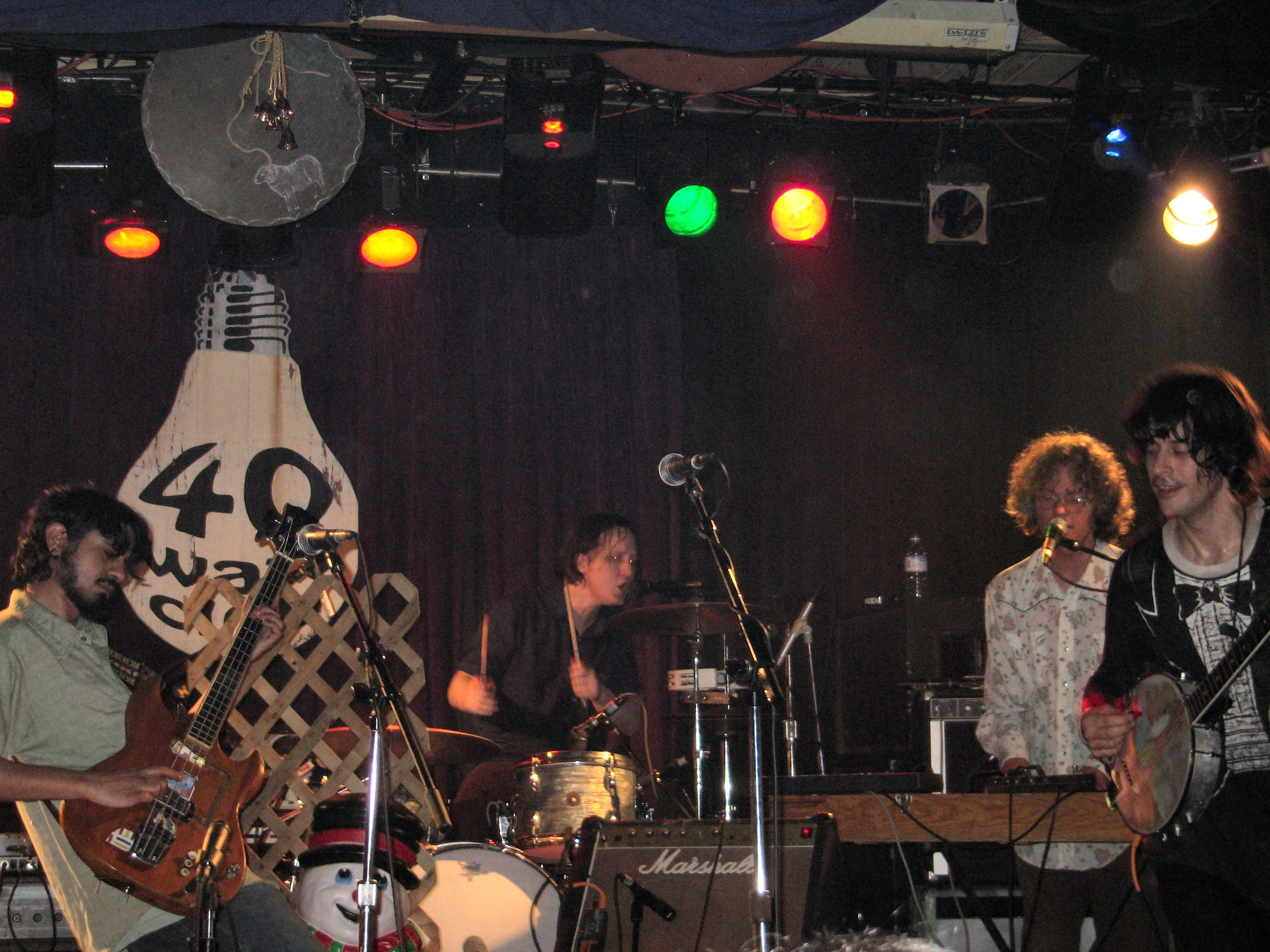 American indie rock group Olivia Tremor Control in concert. 40watt Reunion, April 15, 2005